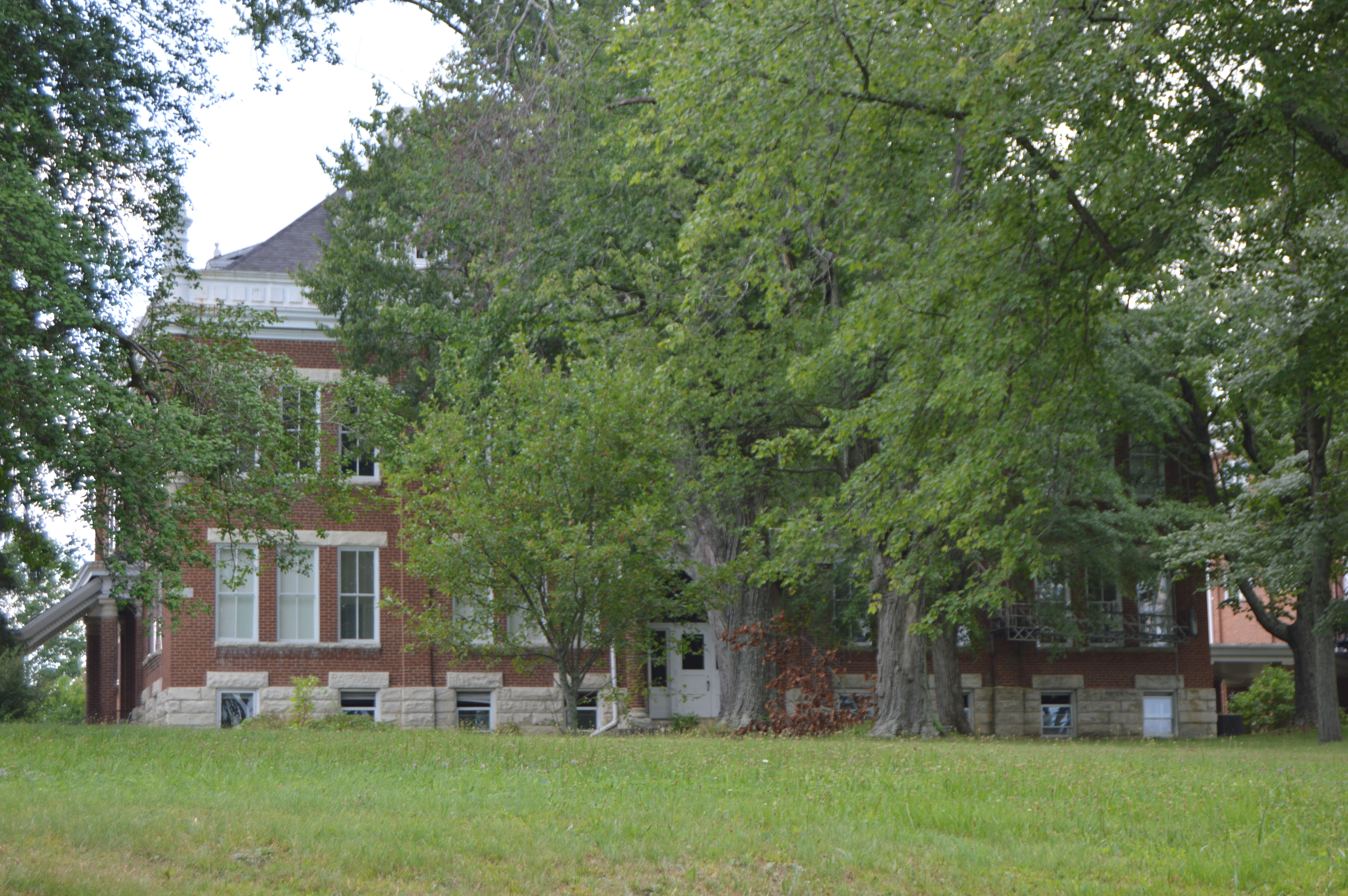 Southern side of the Sue Bennett Memorial School Building, located on the campus of the former Sue Bennett College in London, Kentucky, United States. Built in 1896, it is listed on the National Register of Historic Places.